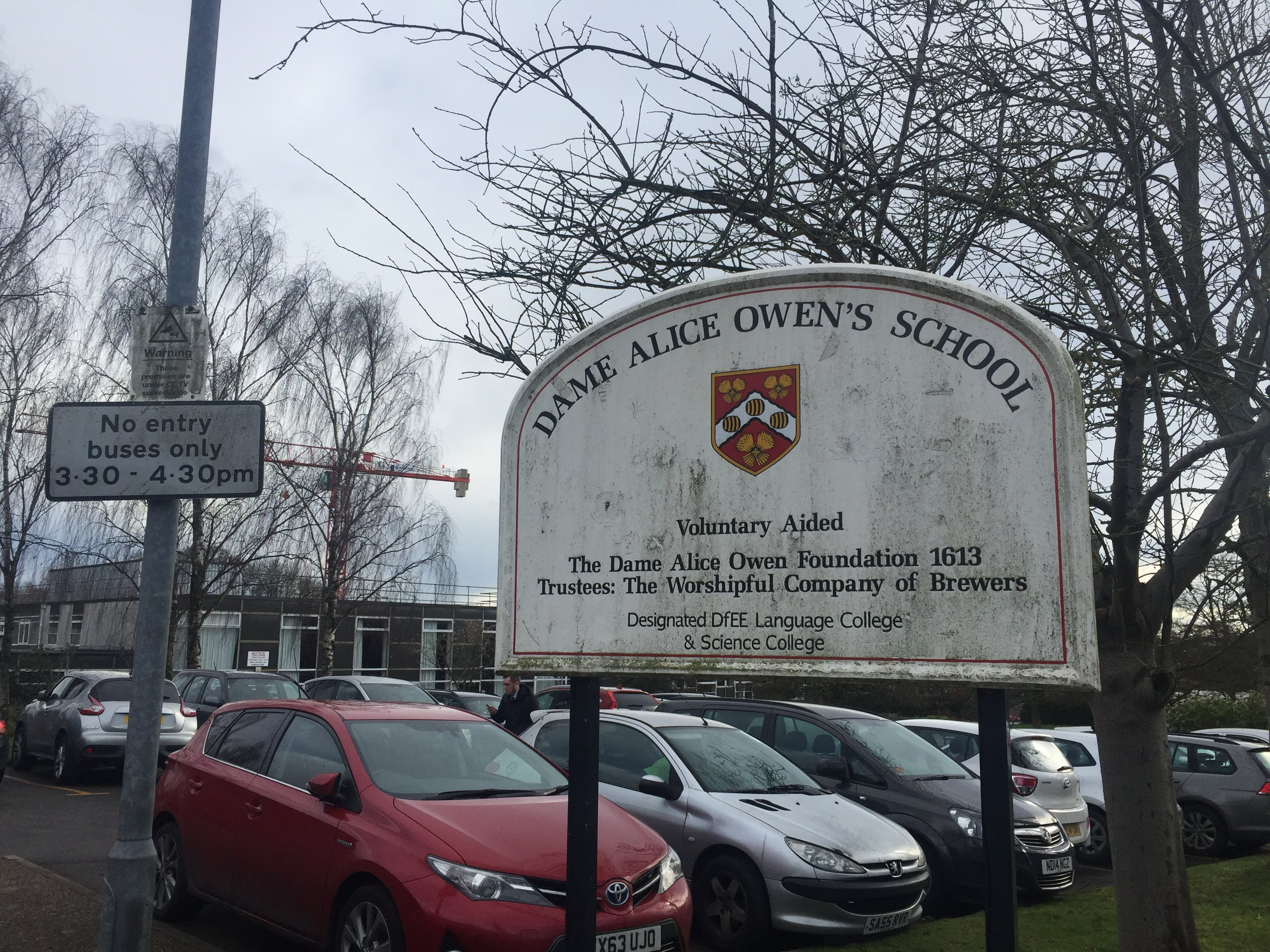 A view of the front of Dame Alice Owen's School in Hertfordshire, England; the photo was taken from Dugdale Hill Lane. The picture features cars parked in a car park, with trees, a building and a crane in the background. The focus of the picture is a sign containing text, which is reproduced below ("DfEE" refers to the Department for Education and Employment, a former government department in the UK). DAME ALICE OWEN'S SCHOOL [school logo] Voluntary Aided The Dame Alice Owen Foundation 1613 Trustees: The Worshipful Company of Brewers Designated DfEE Language College & Science College